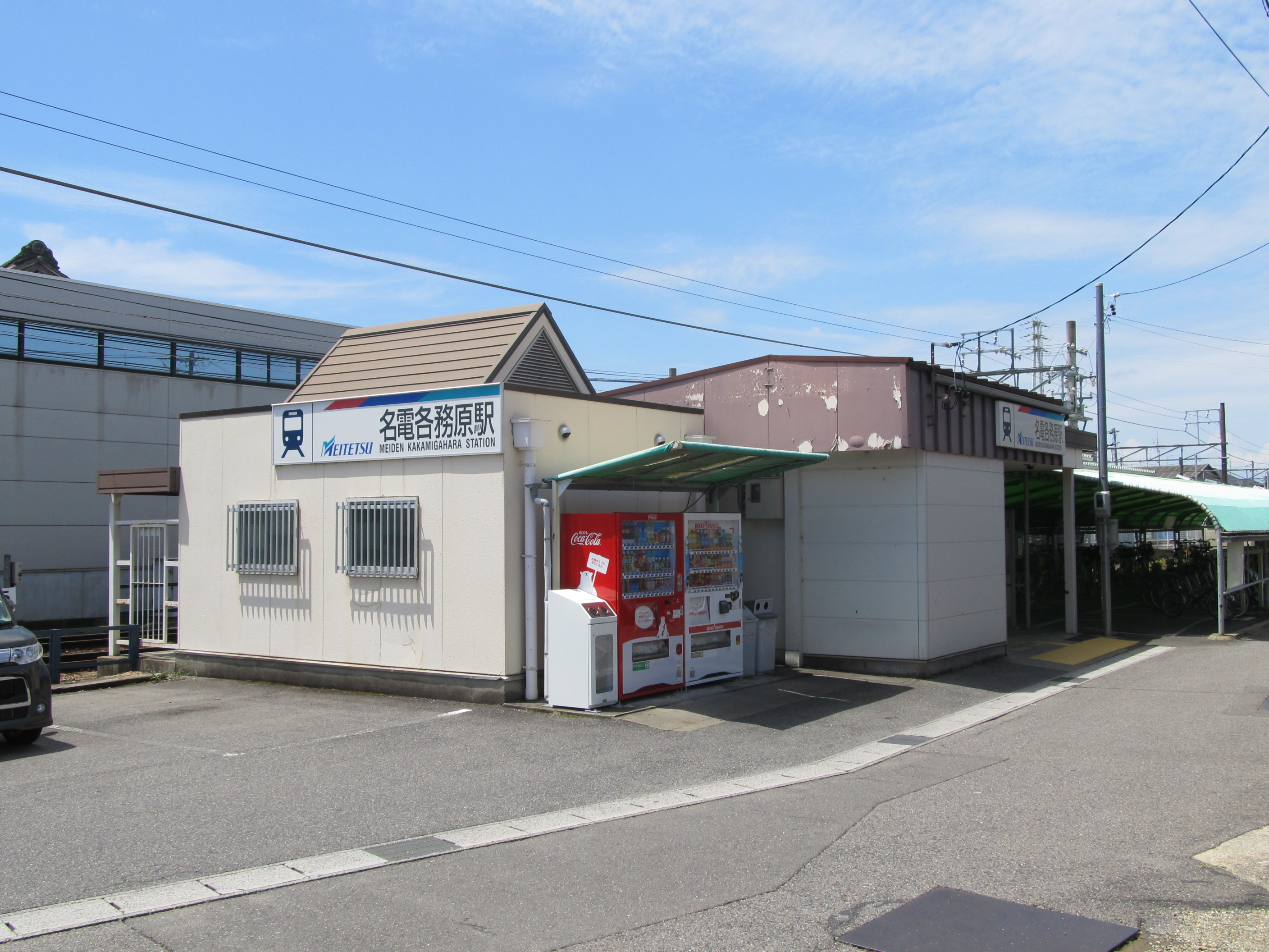 Nagoya Railroad Kakamigahara Line Meiden Kakamigahara Station Building